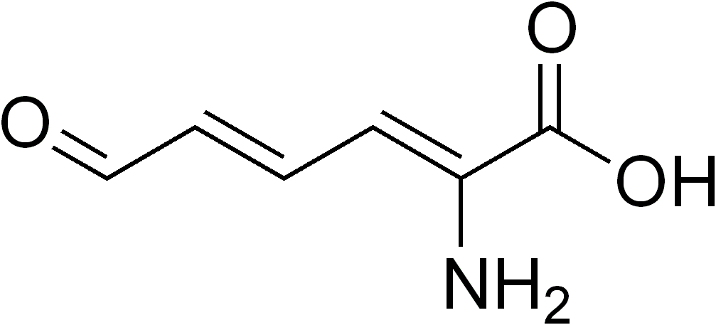 chemical structure of 2-aminomuconic semialdehyde